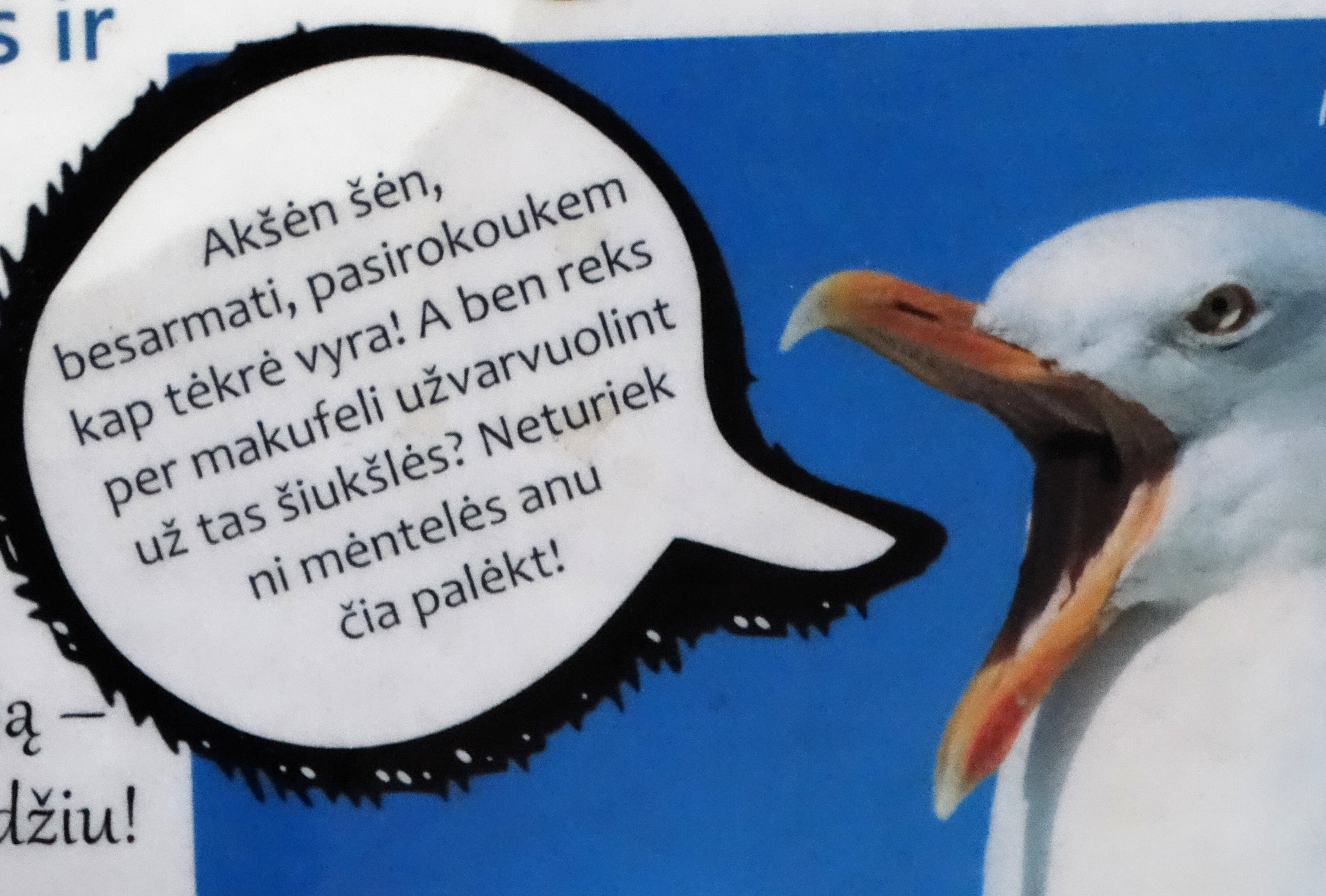 Information board, Trail in Dubravos reserve area, Kaunas district, Lithuania